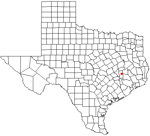 Shiro, Texas location map; created with the GIMP. Made by User:Acntx.